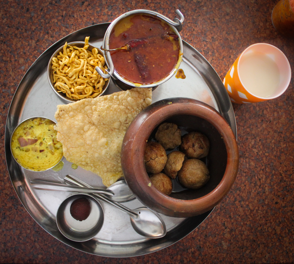 Dal Baati is a popular Rajasthani dish comprising of Tuvar Dal and Baati i.e small wheat bread balls. Baati is dipped in pure ghee and served hot in a traditional earthen pot. Dal is served in a small bucket shaped vessel with a red chilli tadka on top.